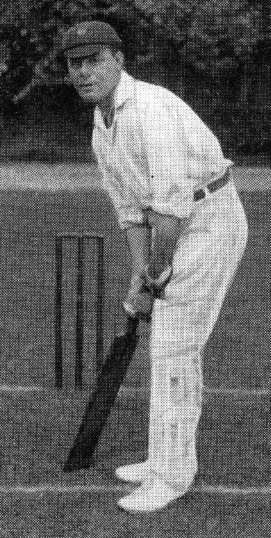 Smith's "Albion" Gold Flakes Cigarette Card of Jack Sharp, part of the 1912 Cricketers series.